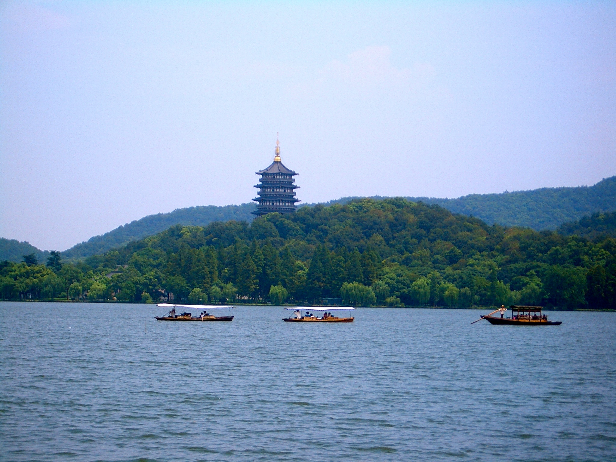 Hangzhou, West Lake